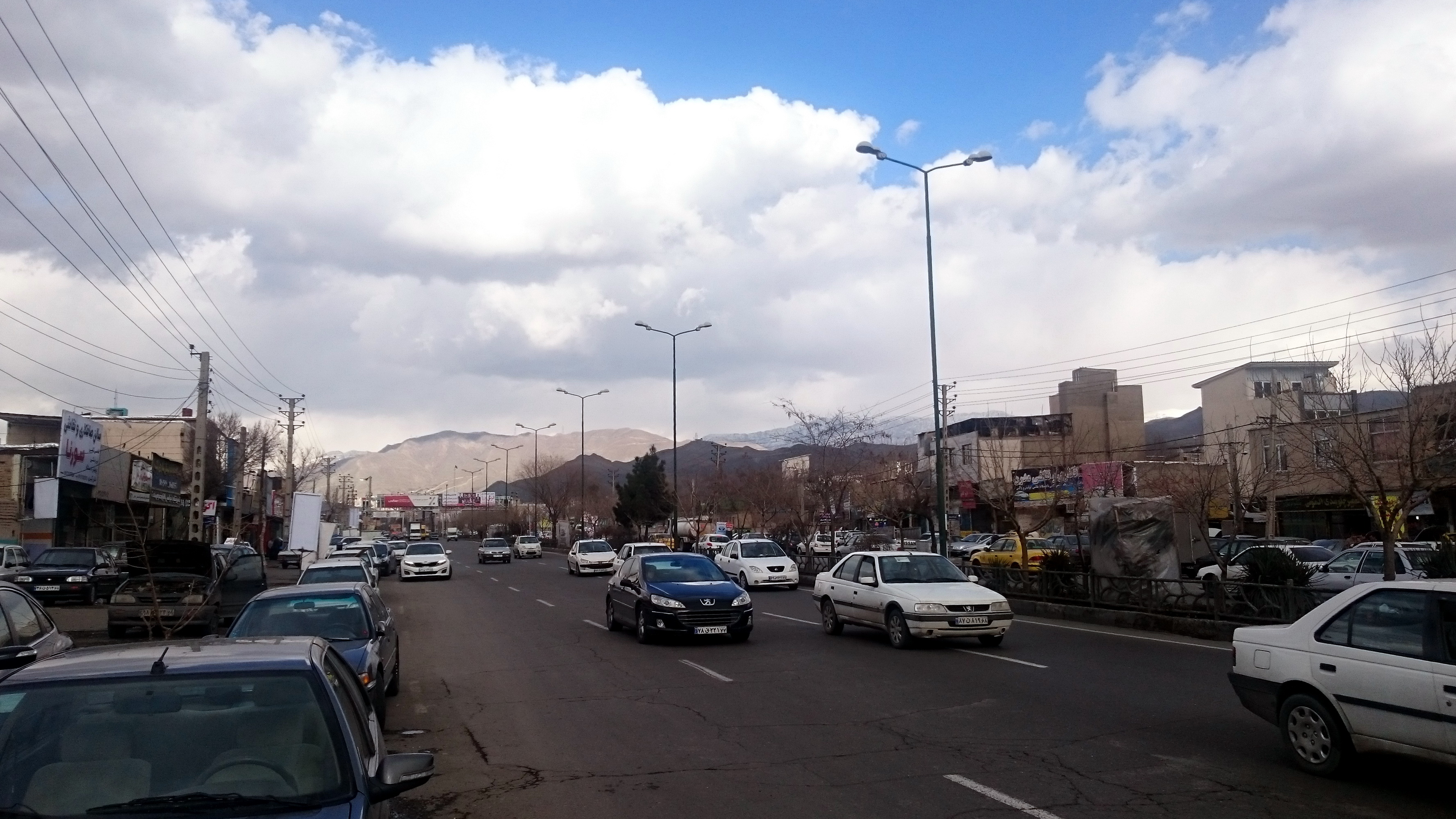 Malard Road